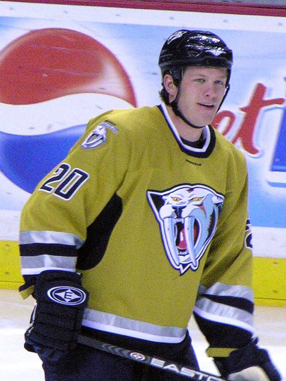 Ryan Suter, ice hockey player for the NHL's Nashville Predators